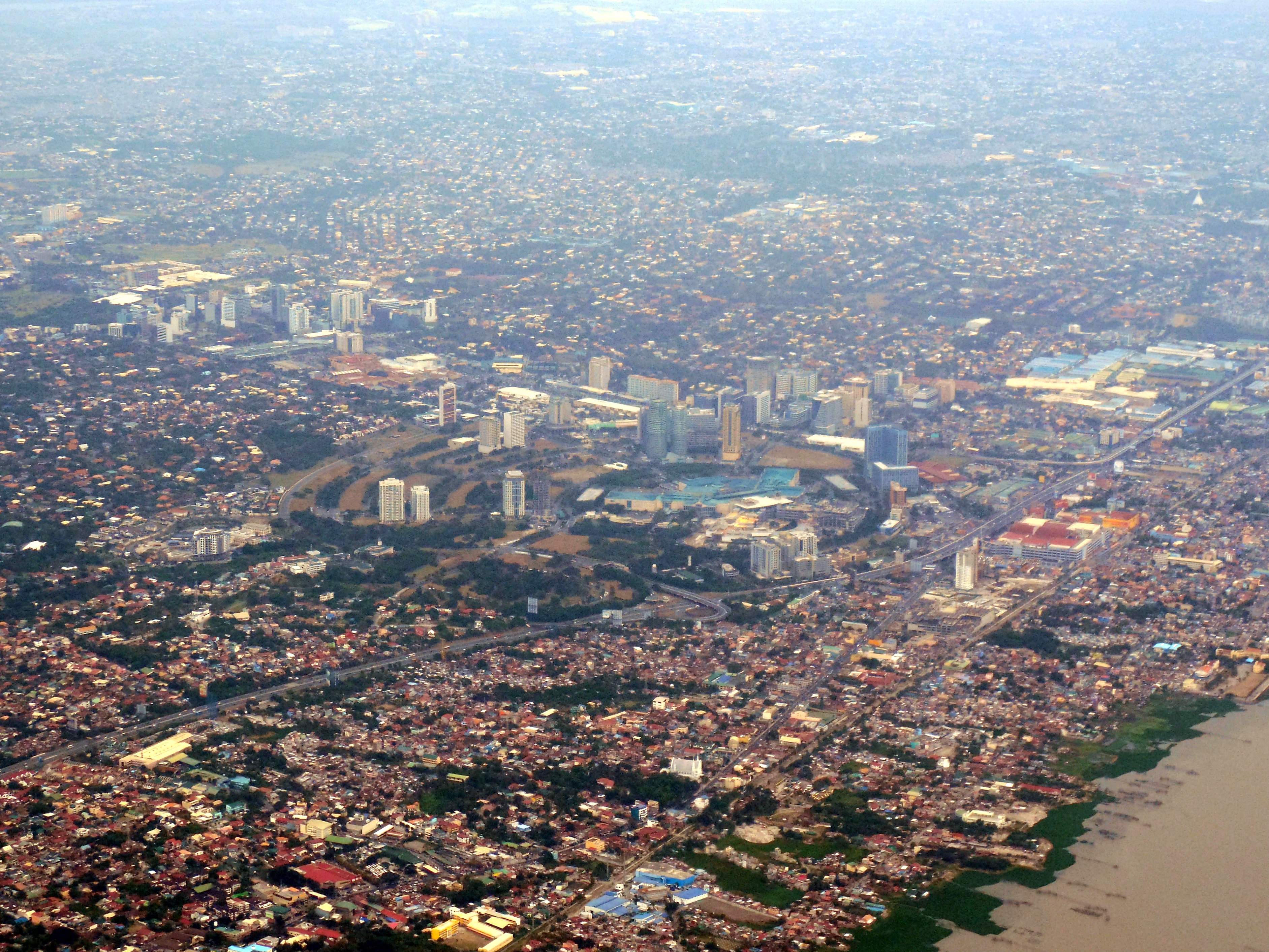 An aerial shot of Muntinlupa City taken from a Cebu Pacific flight from Legazpi City, Albay bound for Manila. In the foreground are Filinvest Corporate City, Festival Supermall, Starmall Alabang and the South Luzon Expressway.